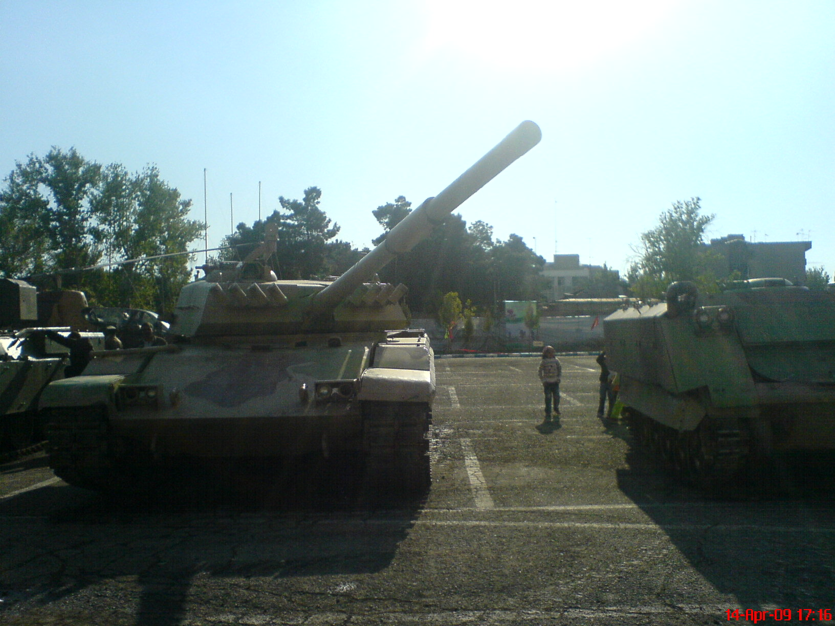 Front view of a Zulfiqar tank of the Iranian Army.